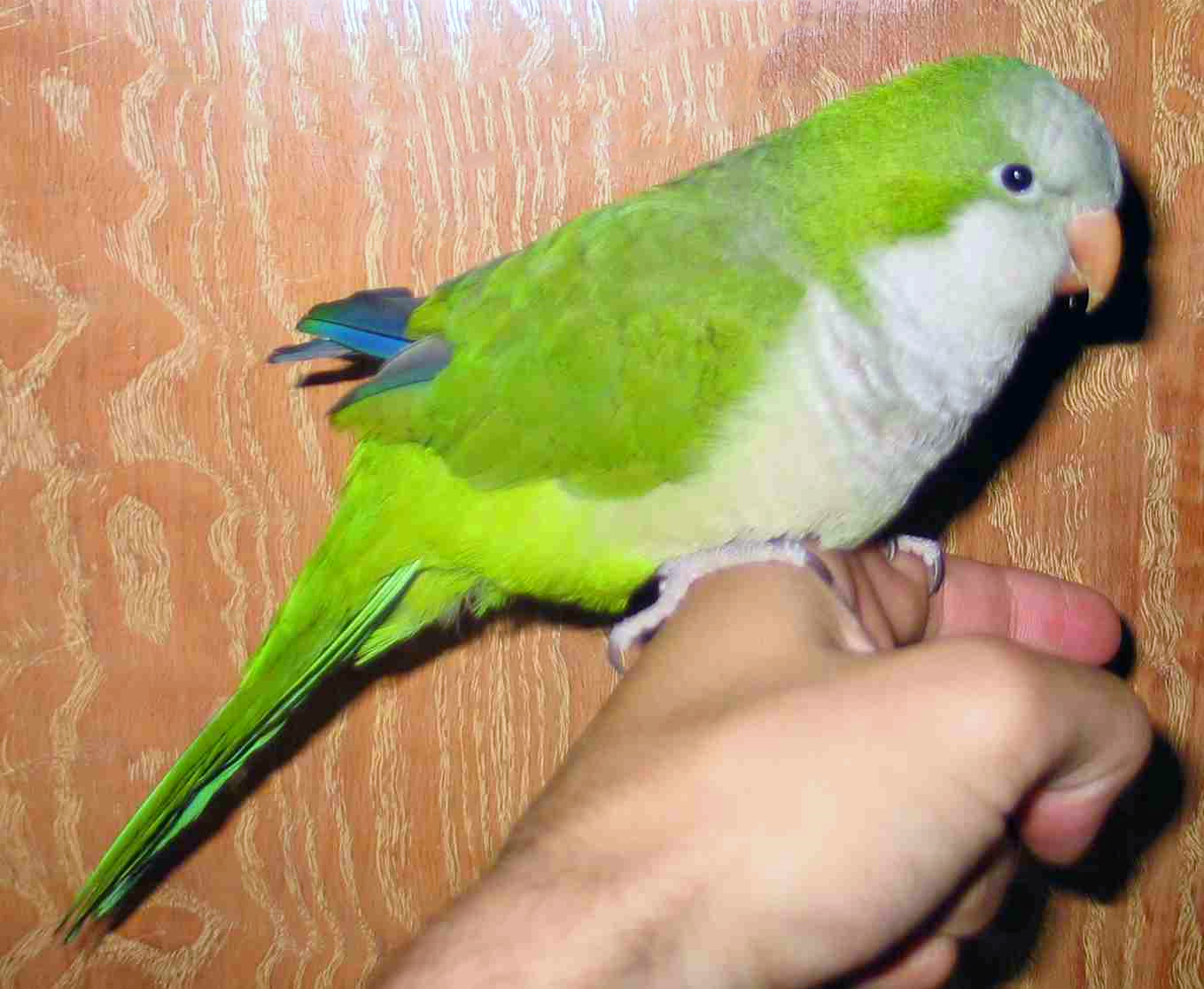 Pet quaker parrot.